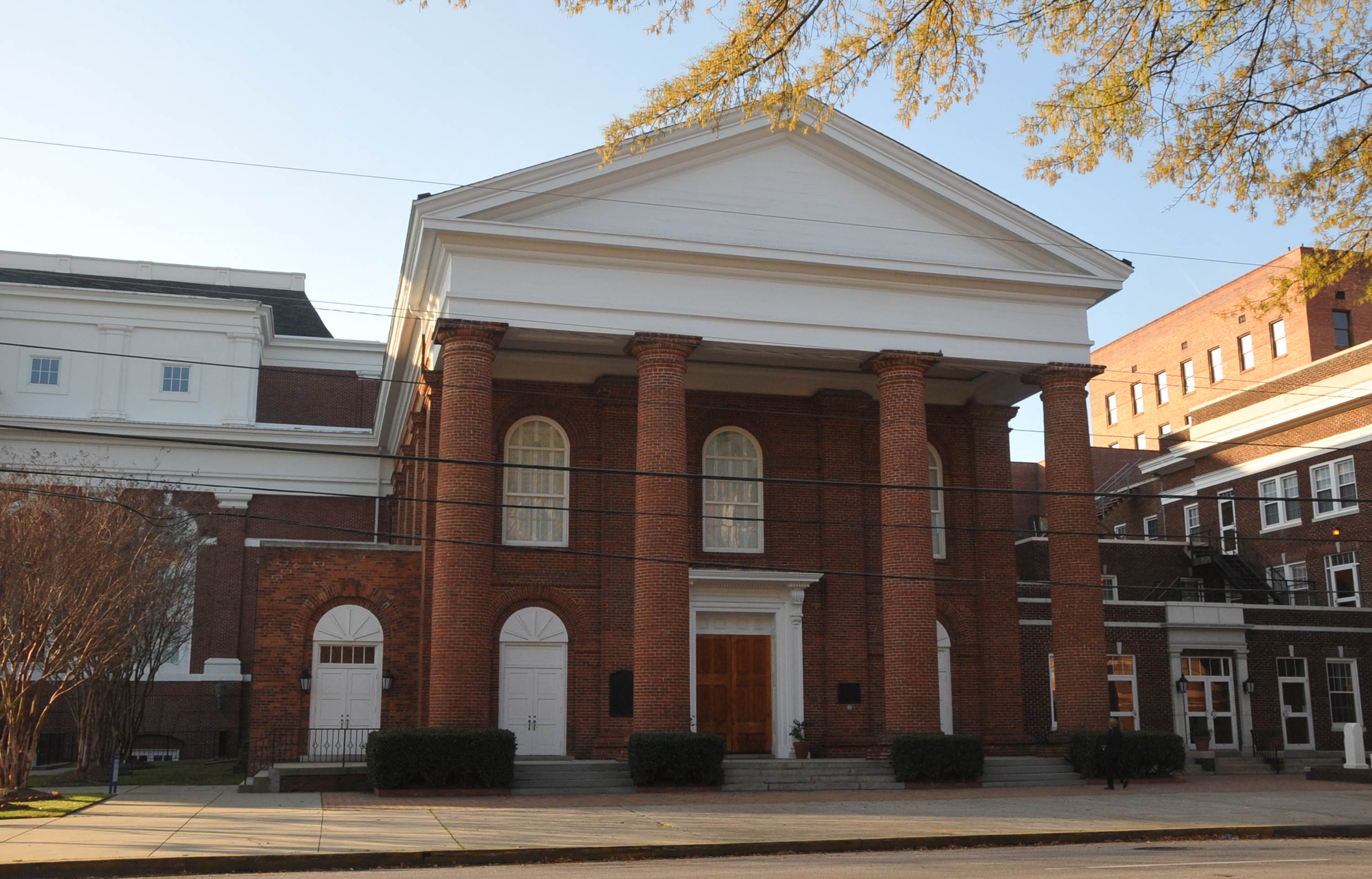 OLD CHURCH OR BOYCE CHAPEL BUILT IN THE LATE 1850’S WAS THE SITE OF THE SECESSION CONVENTION HELD HERE BY ORDER OF THE LEGISLATURE. THE BUILDING DOES NOT LOOK LIKE A CHURCH AND THIS FACT PLUS THE POSSIBILITY THAT THE CUSTODIAN DIRECTED SHERMAN’S TROOPS TO THE METHODIST CHURCH DOWN THE STREET SAVED IT FROM BEING BURNT